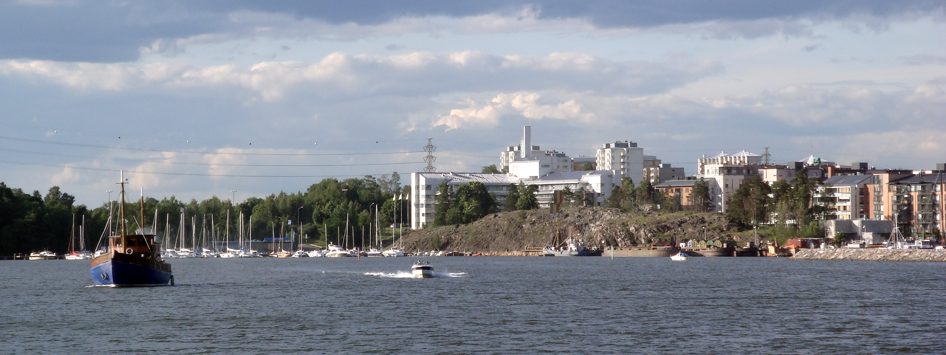 A panoramic slice of seaside at Herttoniemenranta, which is a part of Helsinki's residential neighborhood Herttoniemi.